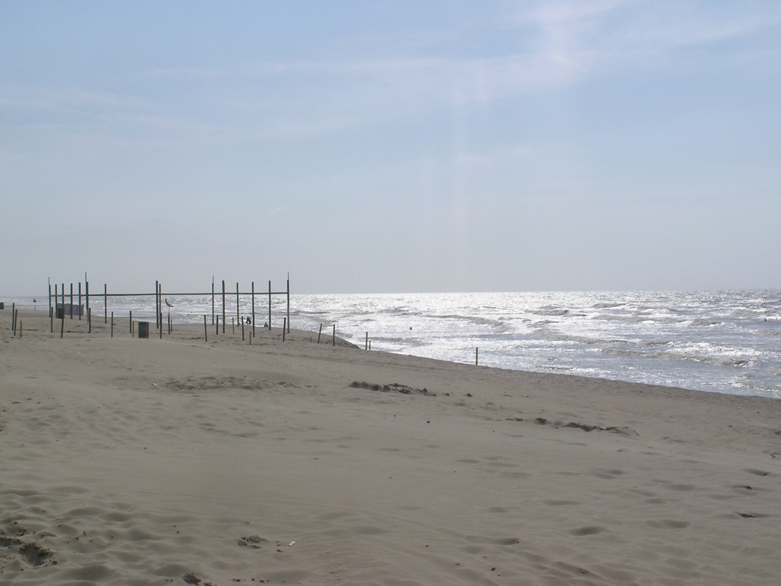 2005-06-26 Dunes - Middelkerke - Belgian Coast Source: Photos personelles de Christophe Gesché